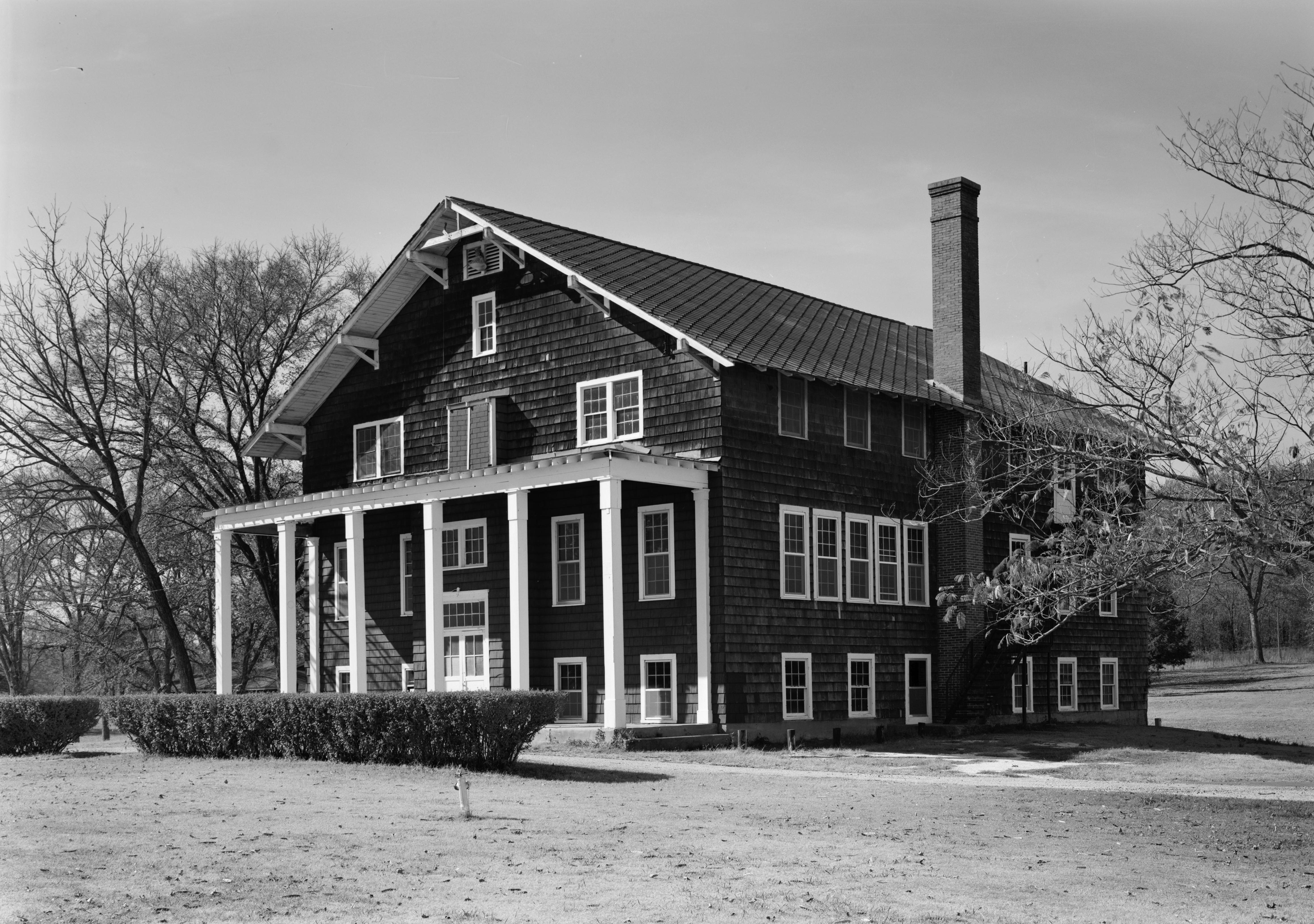 Front and side of the Dwight Mission, located southwest of Marble City in Sequoyah County, Oklahoma, United States. Built in 1905, it is listed on the National Register of Historic Places.